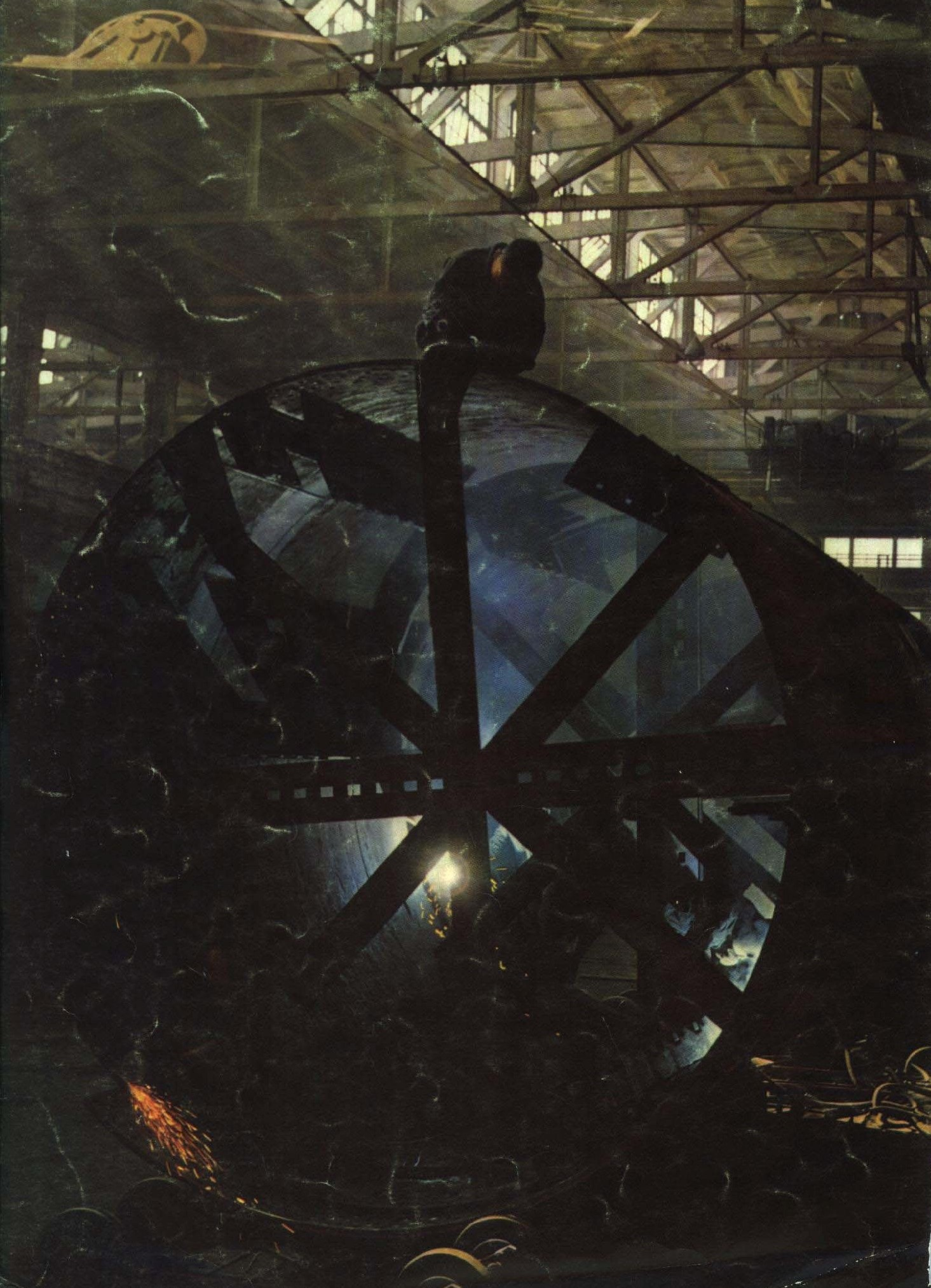 1965-01 洛阳矿山机械厂